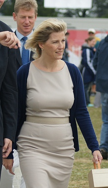 The Countess of Wessex, accompanied by Simon Mason, President of England Hockey, at the England v Germany WCT Bronze Medal Match.